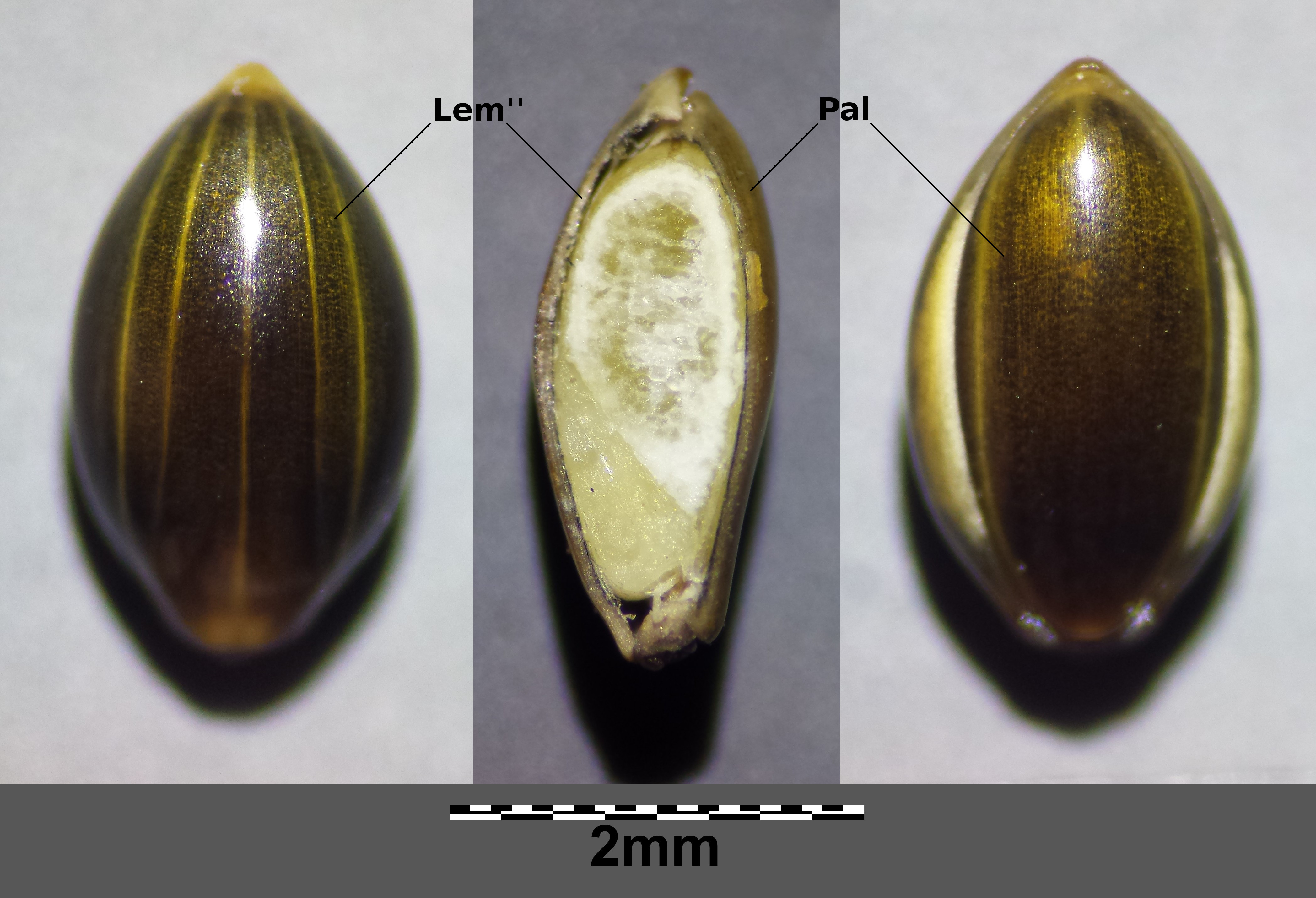 Caryopsis wrapped within Lemma (Lem") and Palea (Pal) Taxonym: Panicum miliaceum subsp. ruderale ss Fischer et al. EfÖLS 2008 ISBN 978-3-85474-187-9 Location: to the north of Oberthern, municipality Heldenberg, district Hollabrunn, Lower Austria - ca. 300 m ü. A. Habitat: field